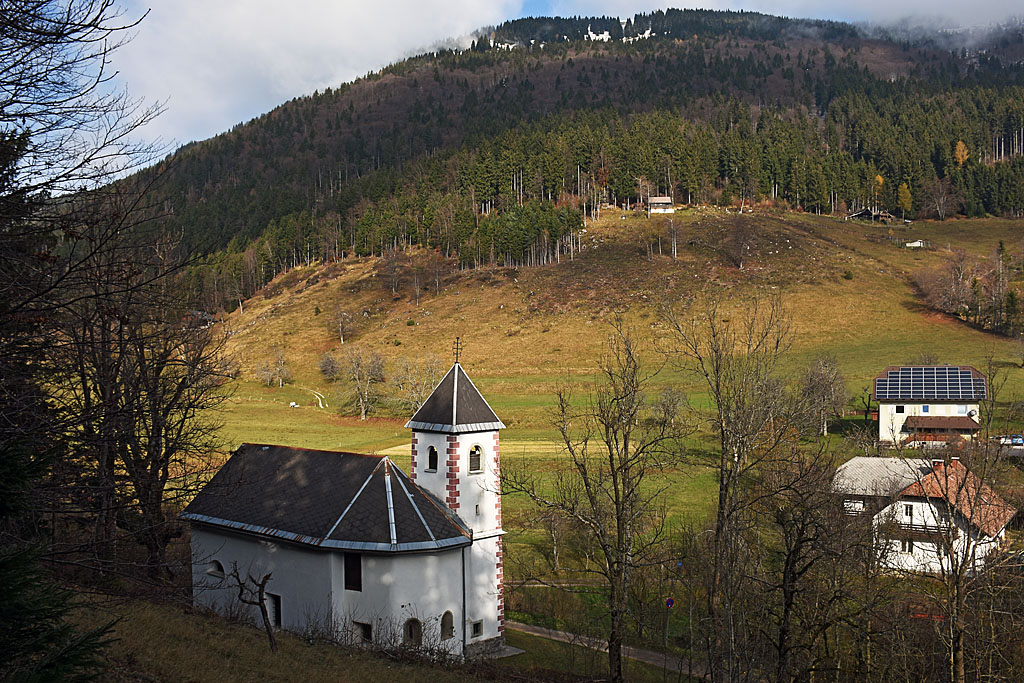 Gozd village with the church of Saint Nicholas. Behind is Kriška gora (mountain )..